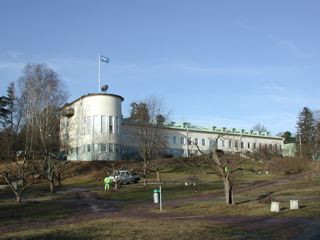 SIPRI building